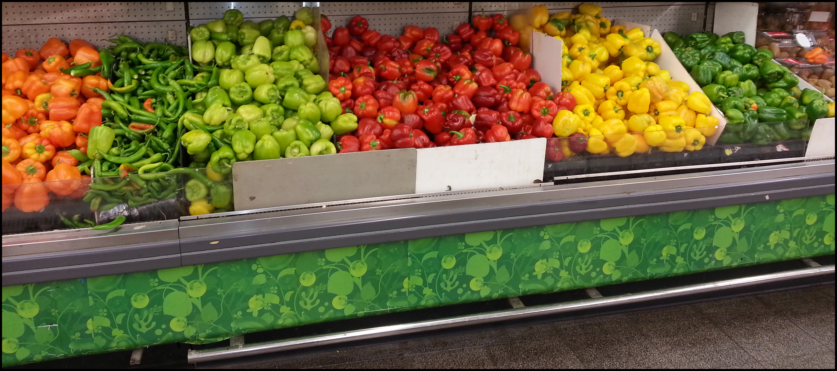 Five colors of peppers in an Israeli supermarket "Mega"